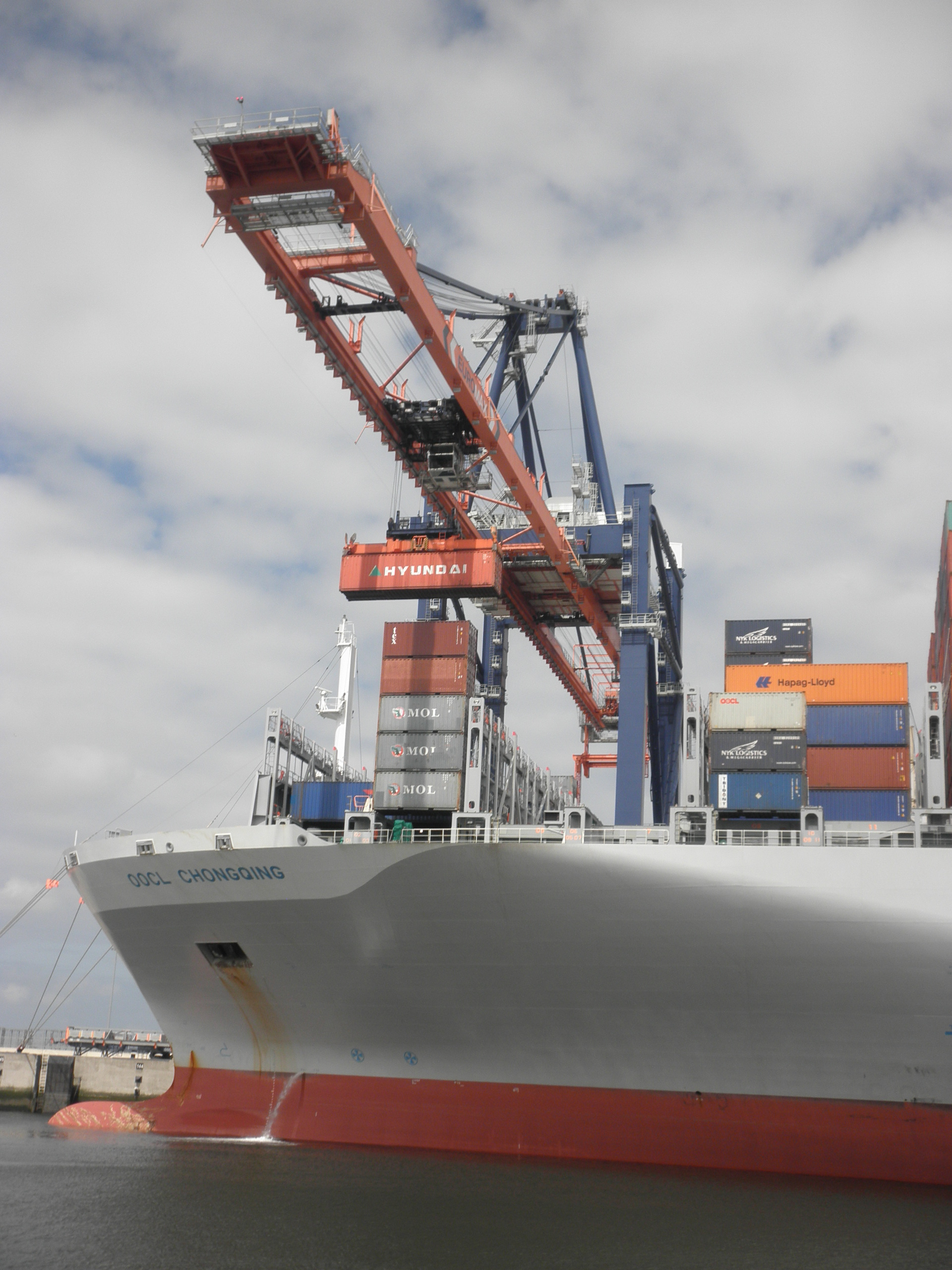 Unloading on forty-foot container at ECT Euromax Terminal, Port of Rotterdam - Maasvlakte